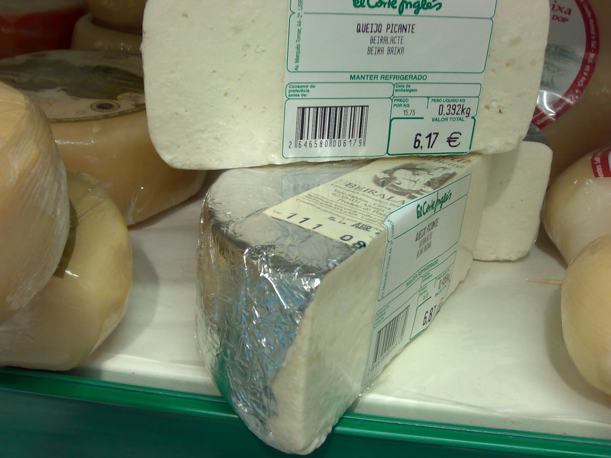 Queijo picante da Beira Baixa, a portuguese cheese.